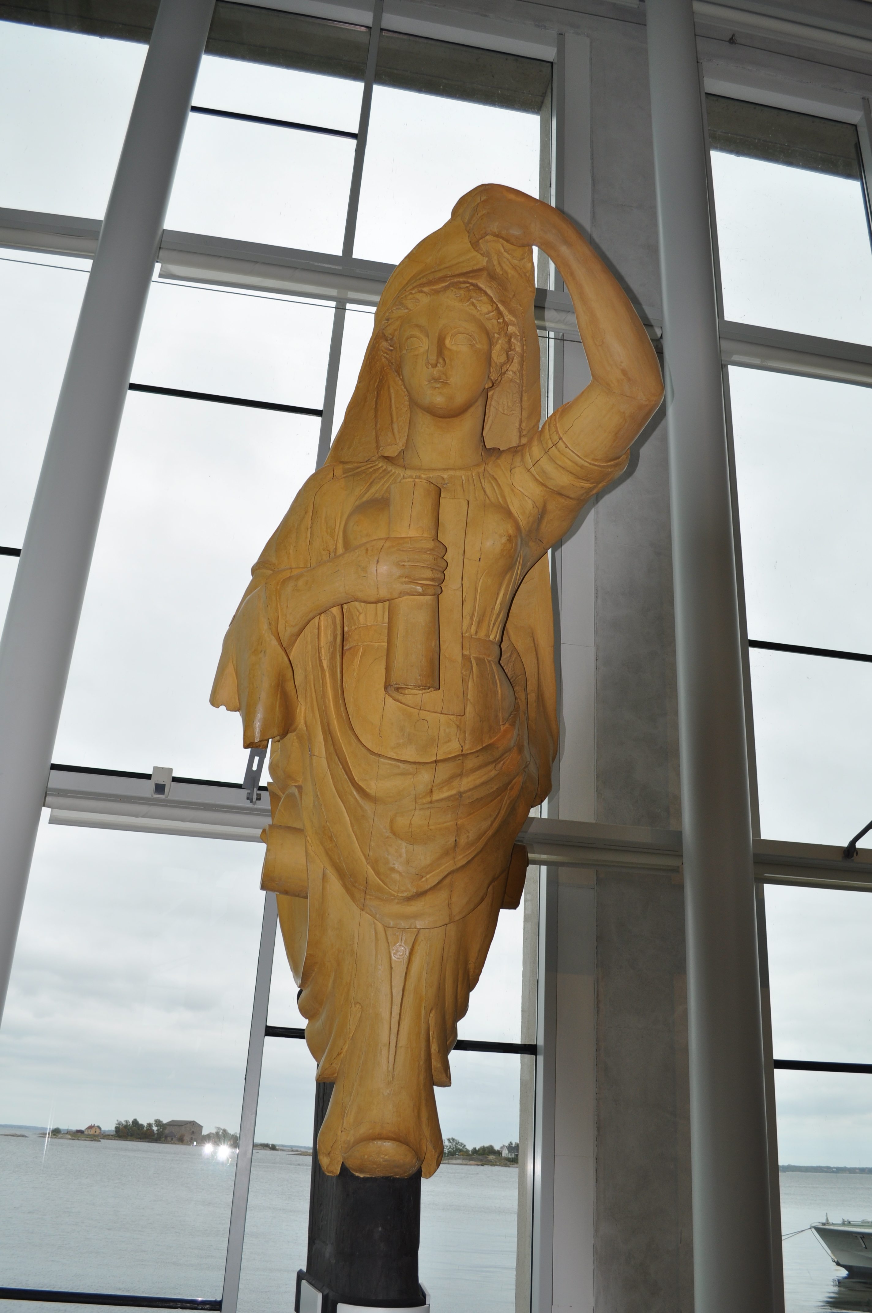 Figurehead made by Carl August Sundwall for the steam - corvette Saga. Marinmuseum karlkrona, Sweden